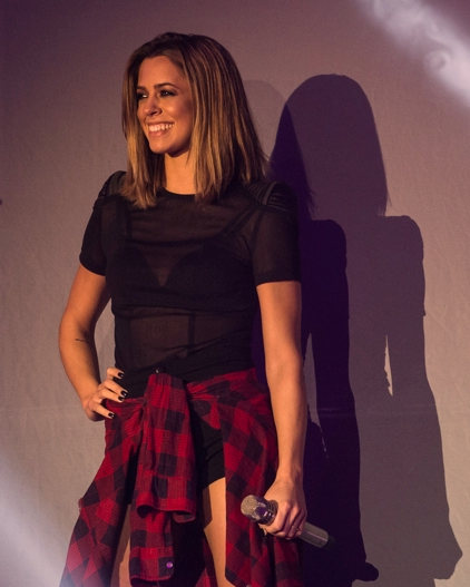 German Pop-Schlager-Singer Vanessa Mai during her "Für Dich Tour" at Alter Schlachthof, Dresden, Germany (24th October 2016).